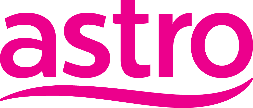 Astro Malaysia Logo